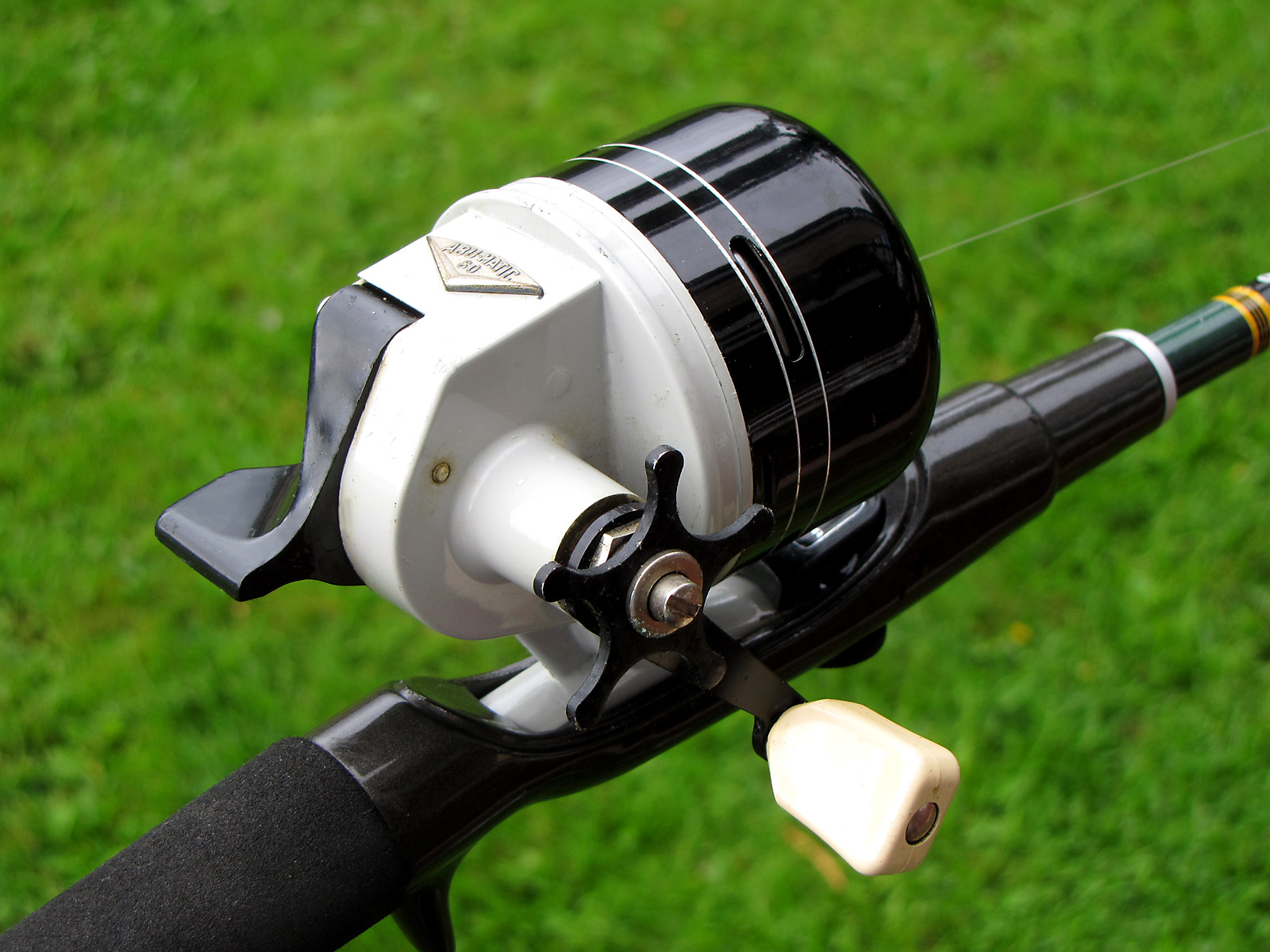 Vintage spincast reel made by Abu Garcia.